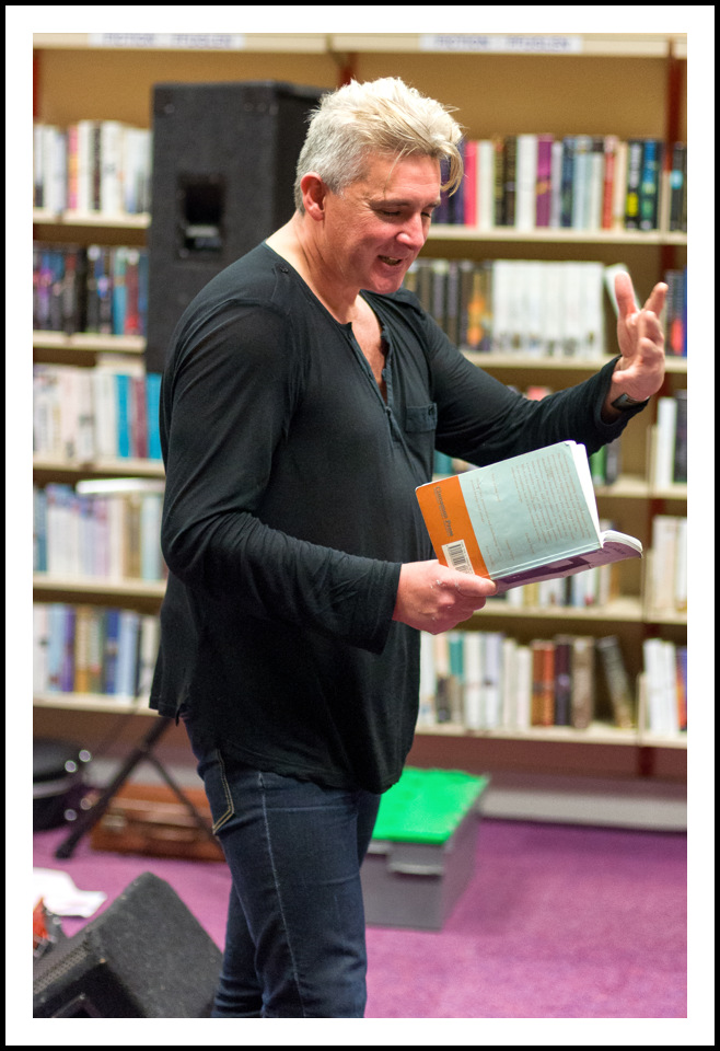 A photo of Patrick Jones, Welsh poet, performing at Rhydyfelin Library on 2014/10/03